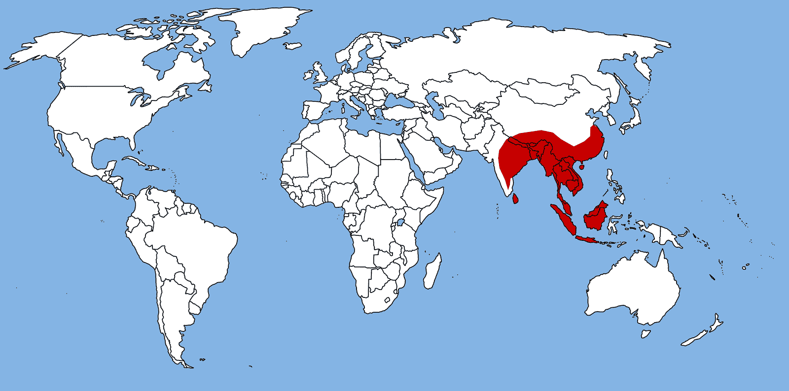 Muntiacus (Distribution map of Muntjac)